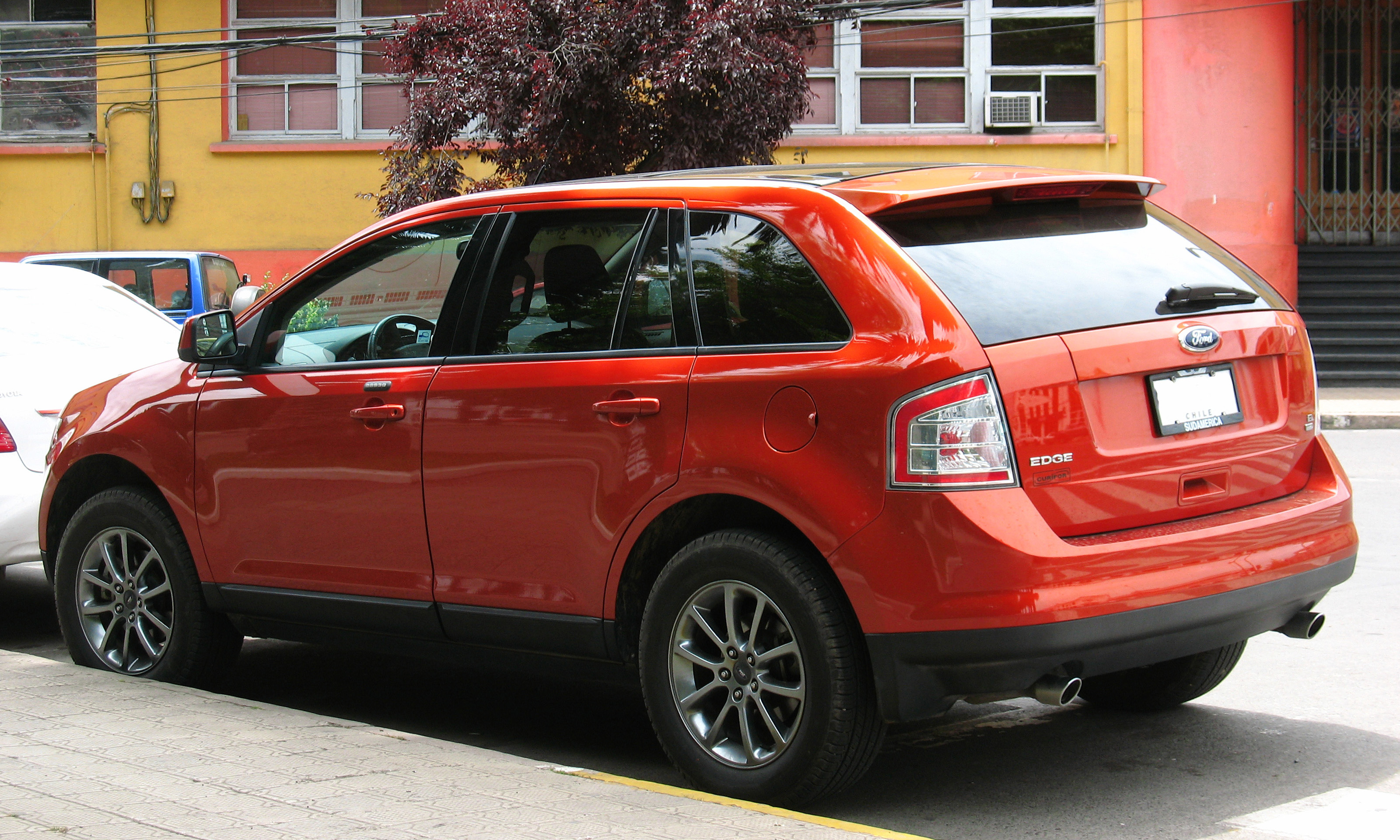 Ford Edge SEL 3.5 AWD 2010